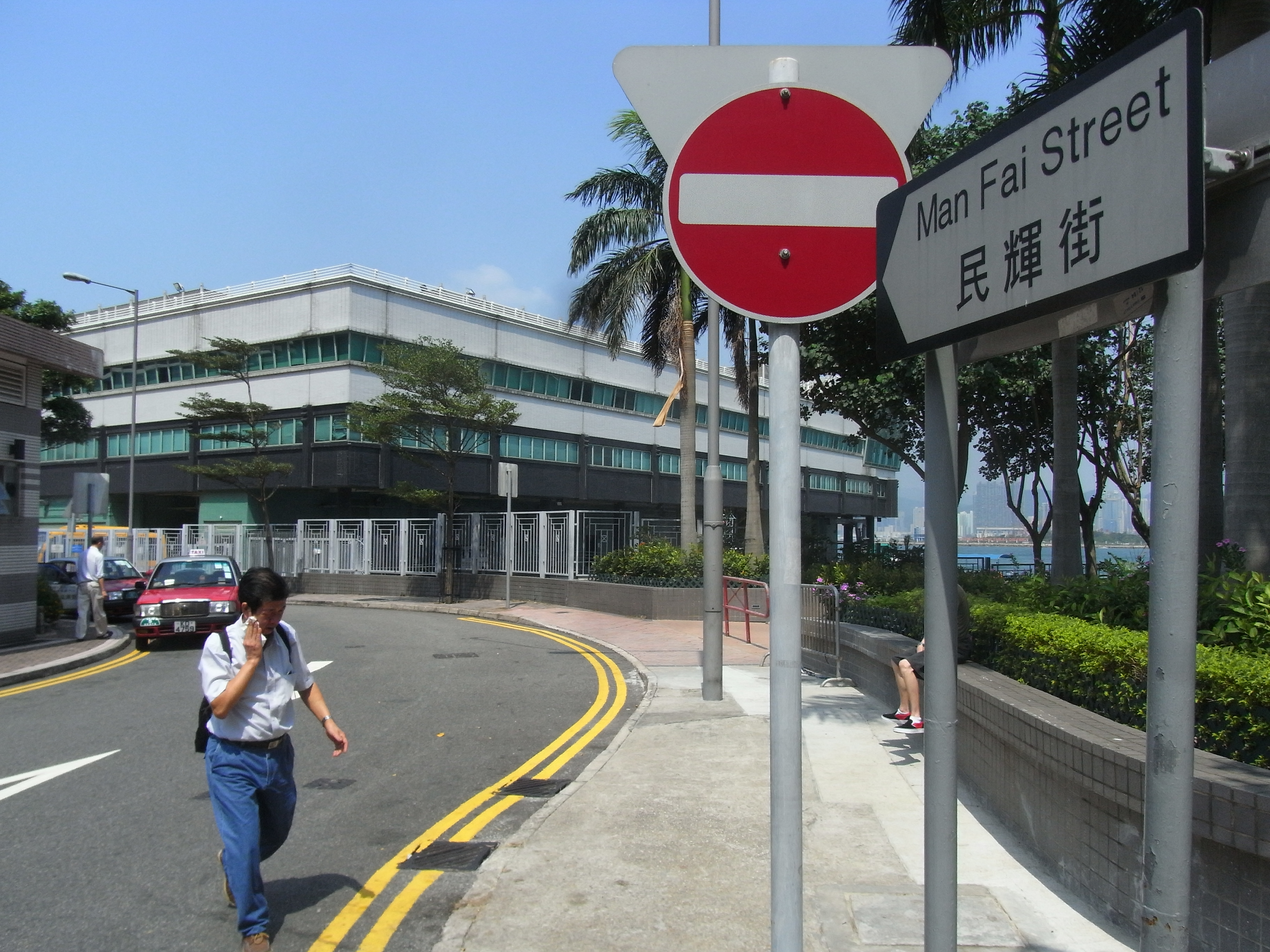 民輝街, Man Fai Street, Sheung Wan, Hong Kong